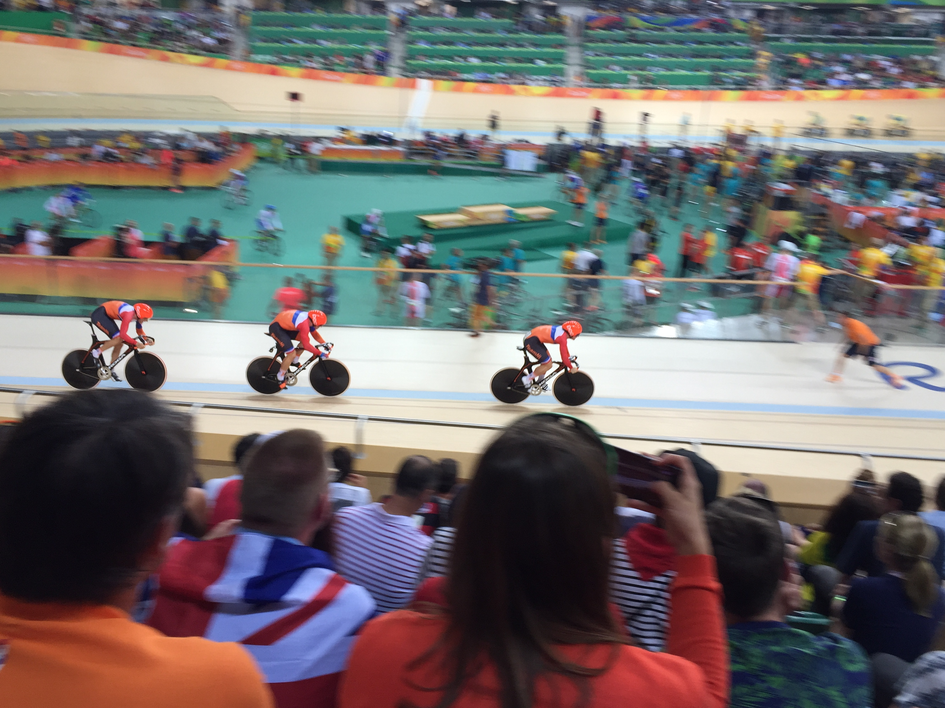 Rio 2016 Summer Olympics